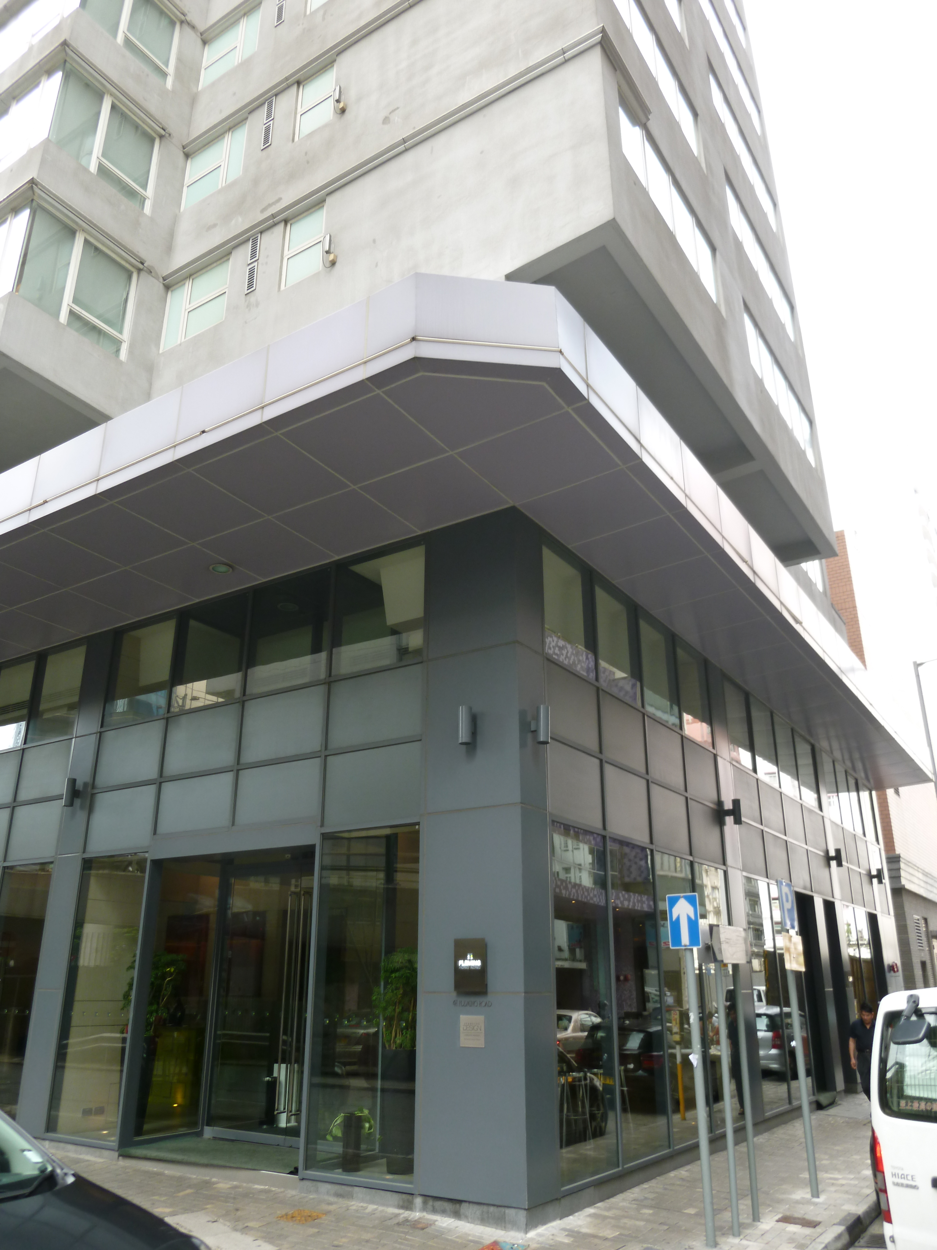 The Fleming Hong Kong (41 Fleming Road, Wan Chai, Hong Kong)中文（香港）: 香港芬名酒店 (香港灣仔菲林明道41號)